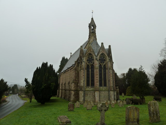 Itchen Stoke- St Mary's in December (3)